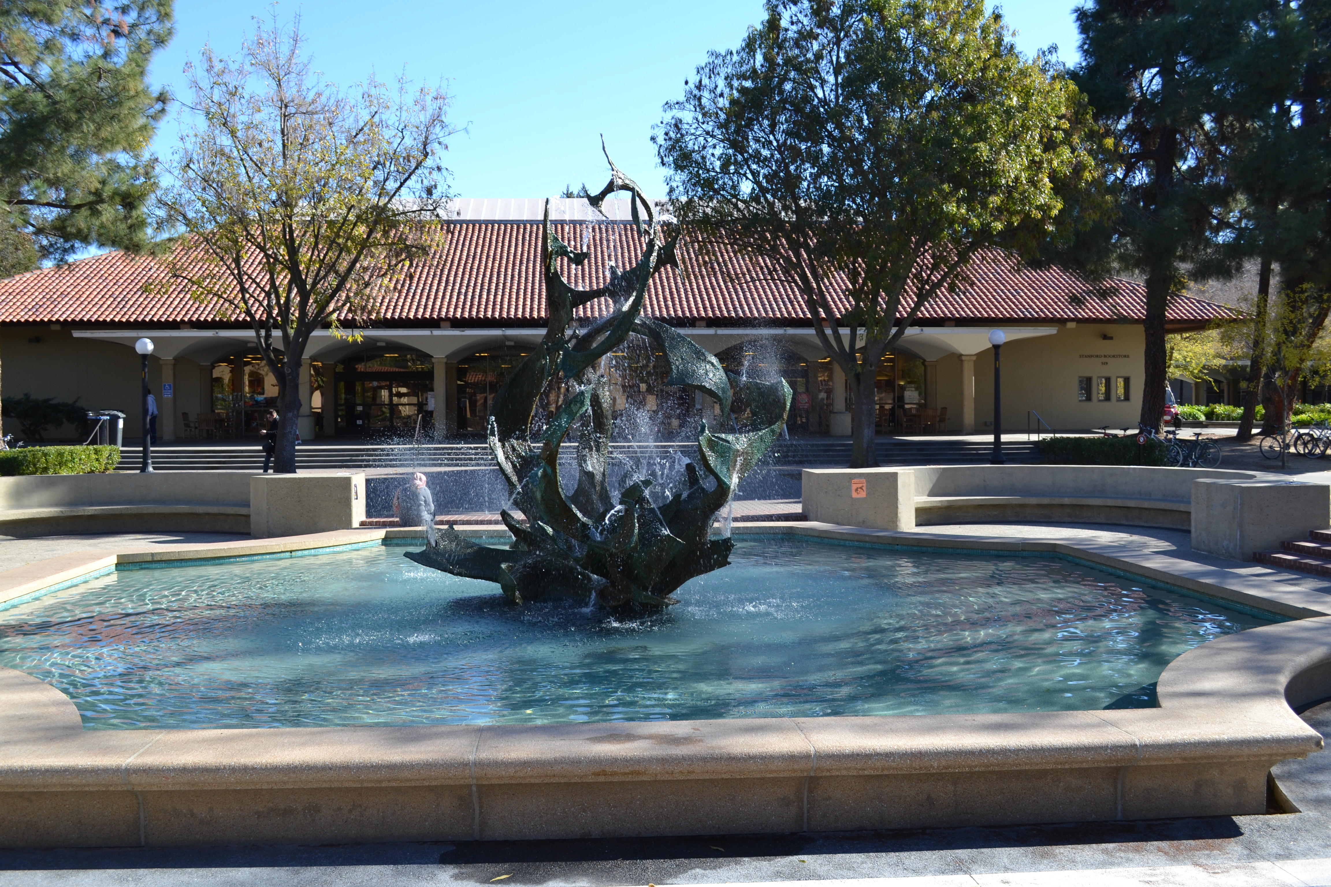 Claw Fountain at Stanford Univerisity.